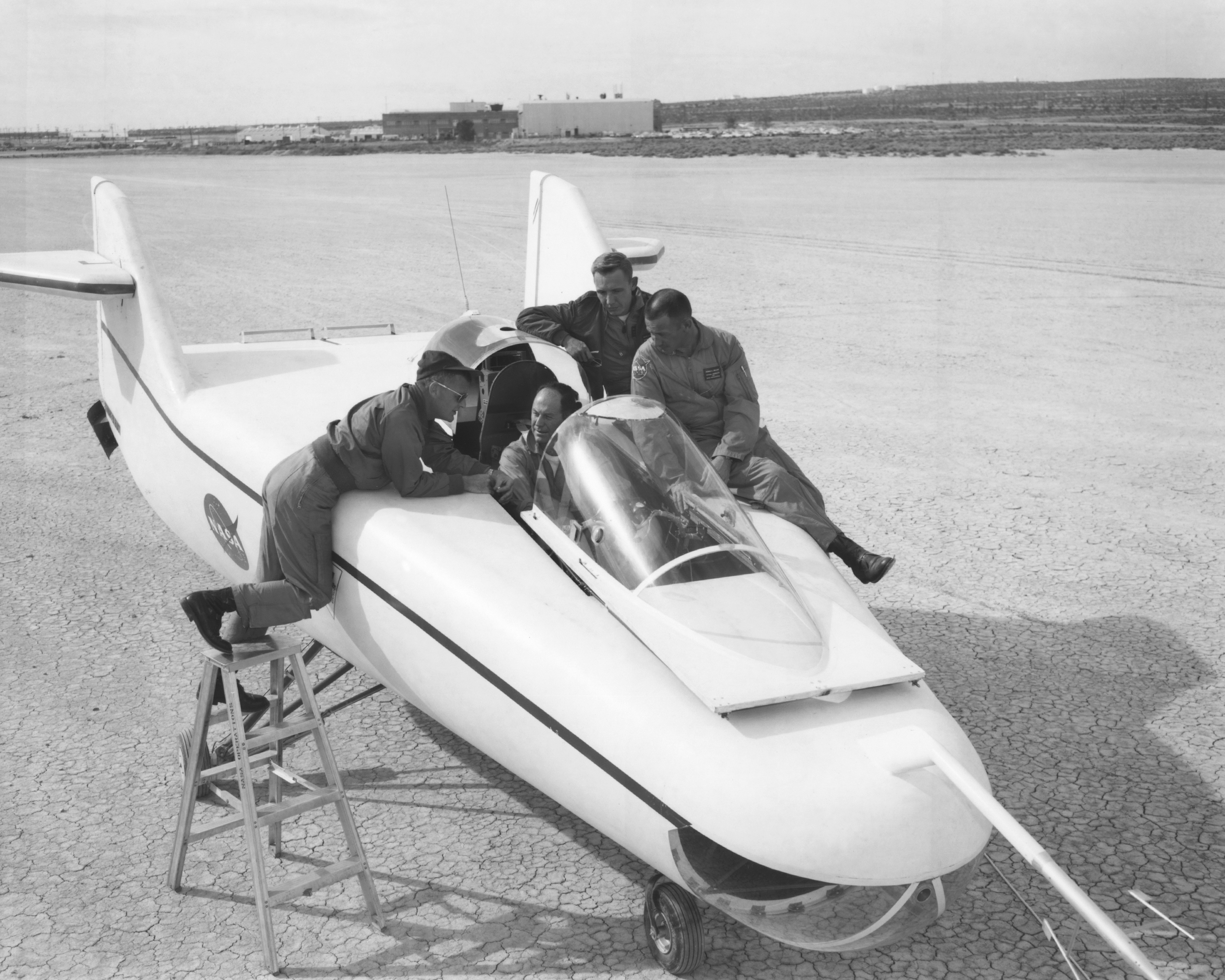 The M2-F1 lifting body aircraft rests on the sun-baked floor of a dry lake bed located out in the Mojave Desert at the Dryden Flight Research Center, California. Pilot Chuck Yeager, seated in the cockpit of the M2-F1, talks with fellow pilots (from left to right) Milt Thompson, Don Mallick and Bruce Peterson. All three flew the lifting body in several flights. The vehicle later suffered a mishap when Peterson was landing it--the oil in the landing gear hydraulics was not suitable for cold temperatures and caused the gear to break and the vehicle to suffer minor damage.